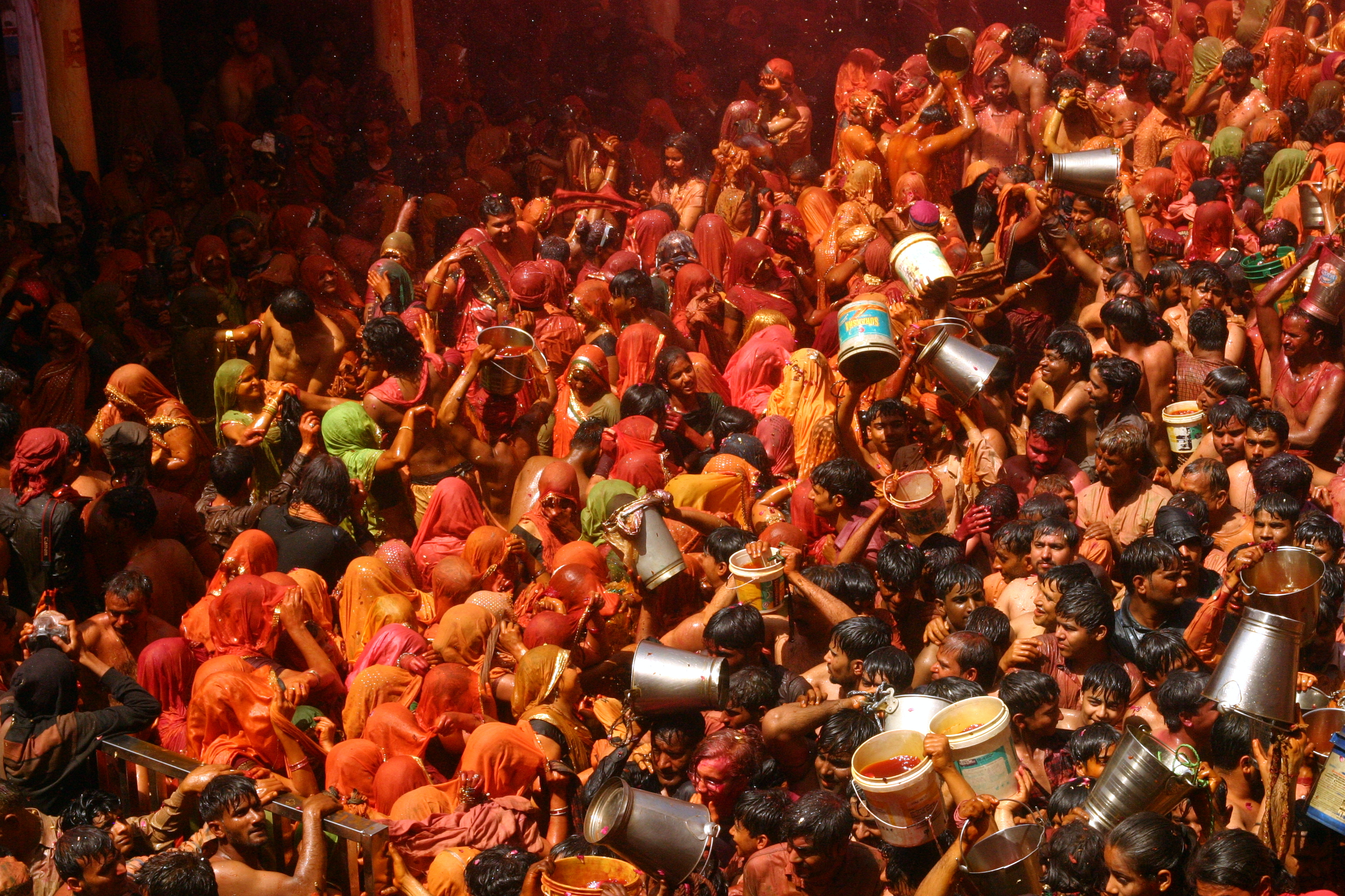 India - Holi festivities. Huranga at Dauji Temple in Baldeo the day after Holi.